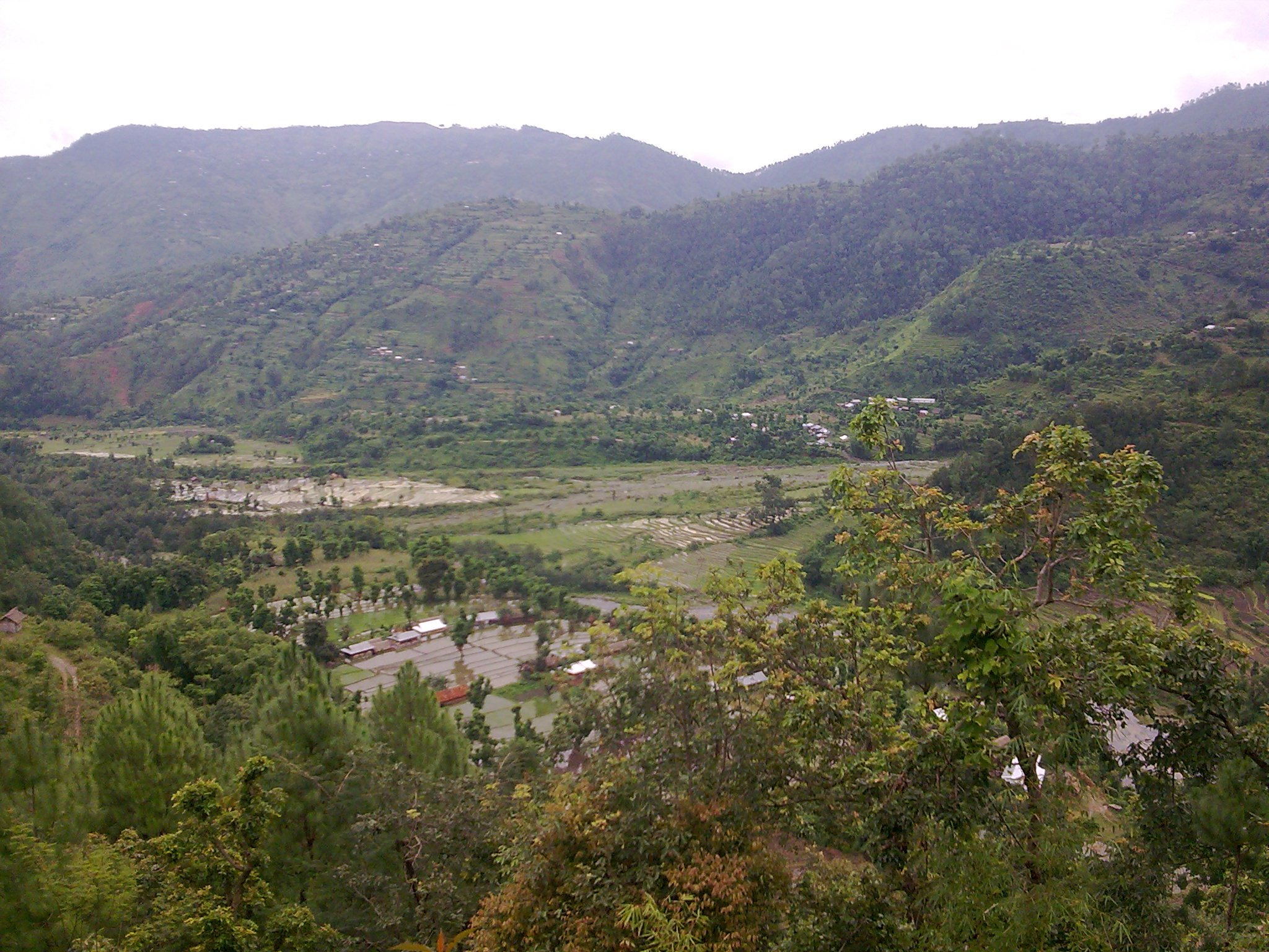 A Village in Dhankuta district in Nepal